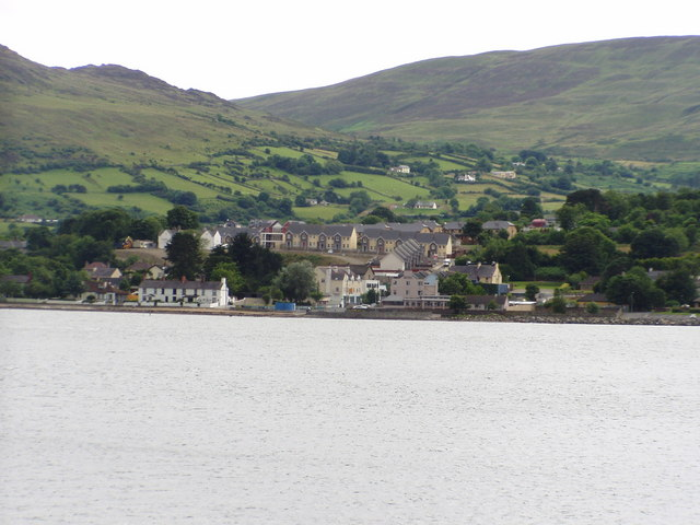 Looking across Carlingford Lough to Omeath in Southern Ireland